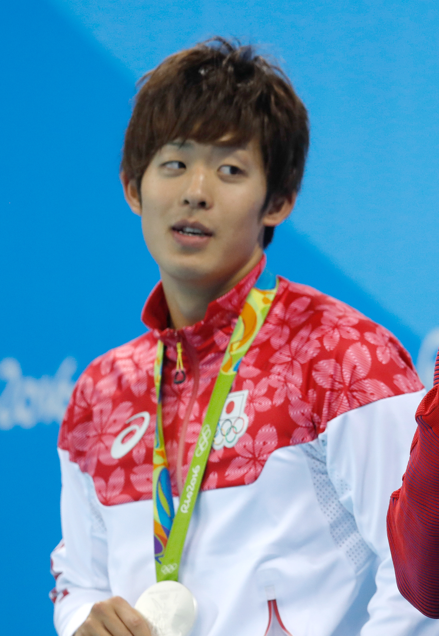 Masato Sakai. (Fernando Frazão/Agência Brasil)